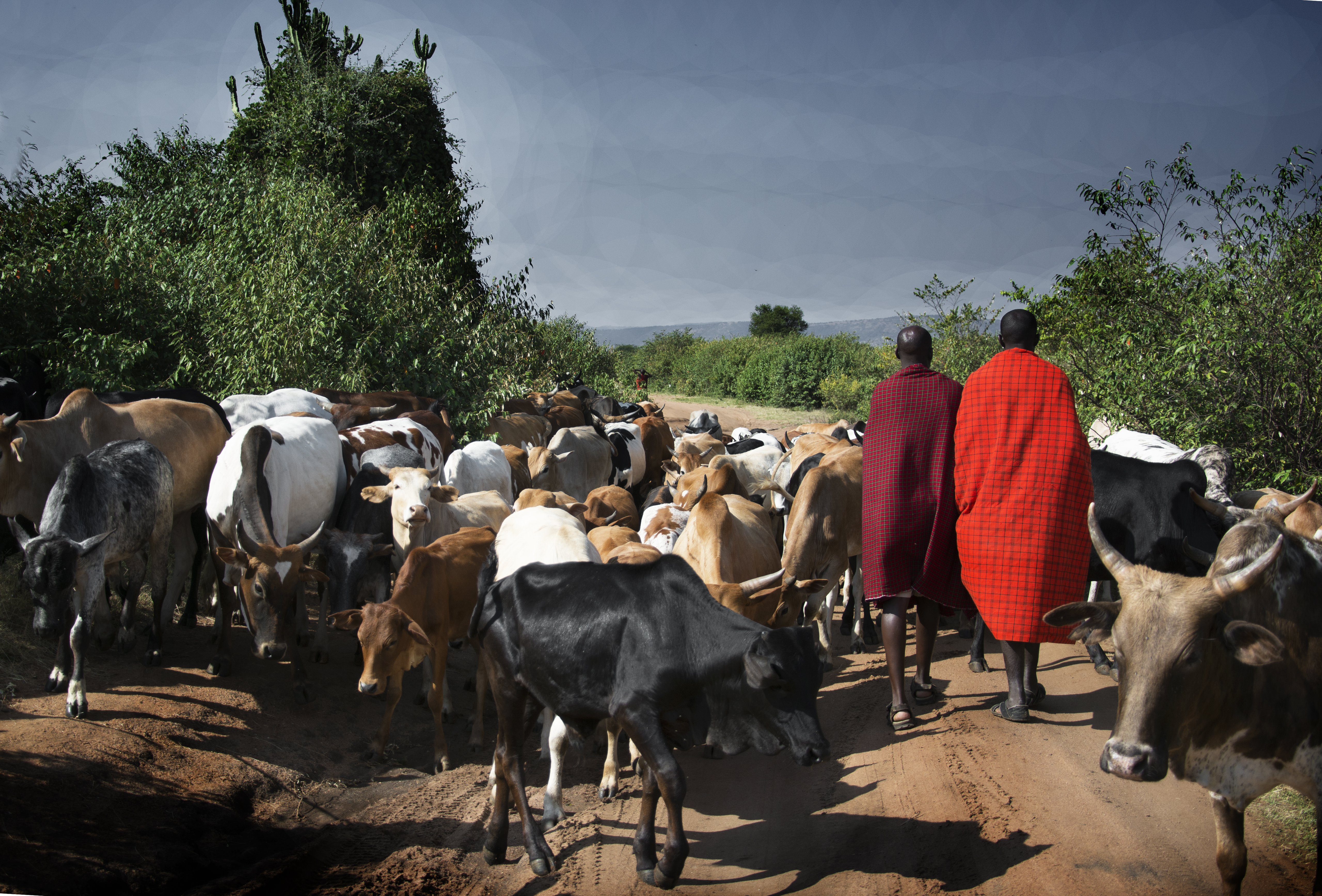 This is an image with the theme "Africa on the Move or Transport" from: Kenya